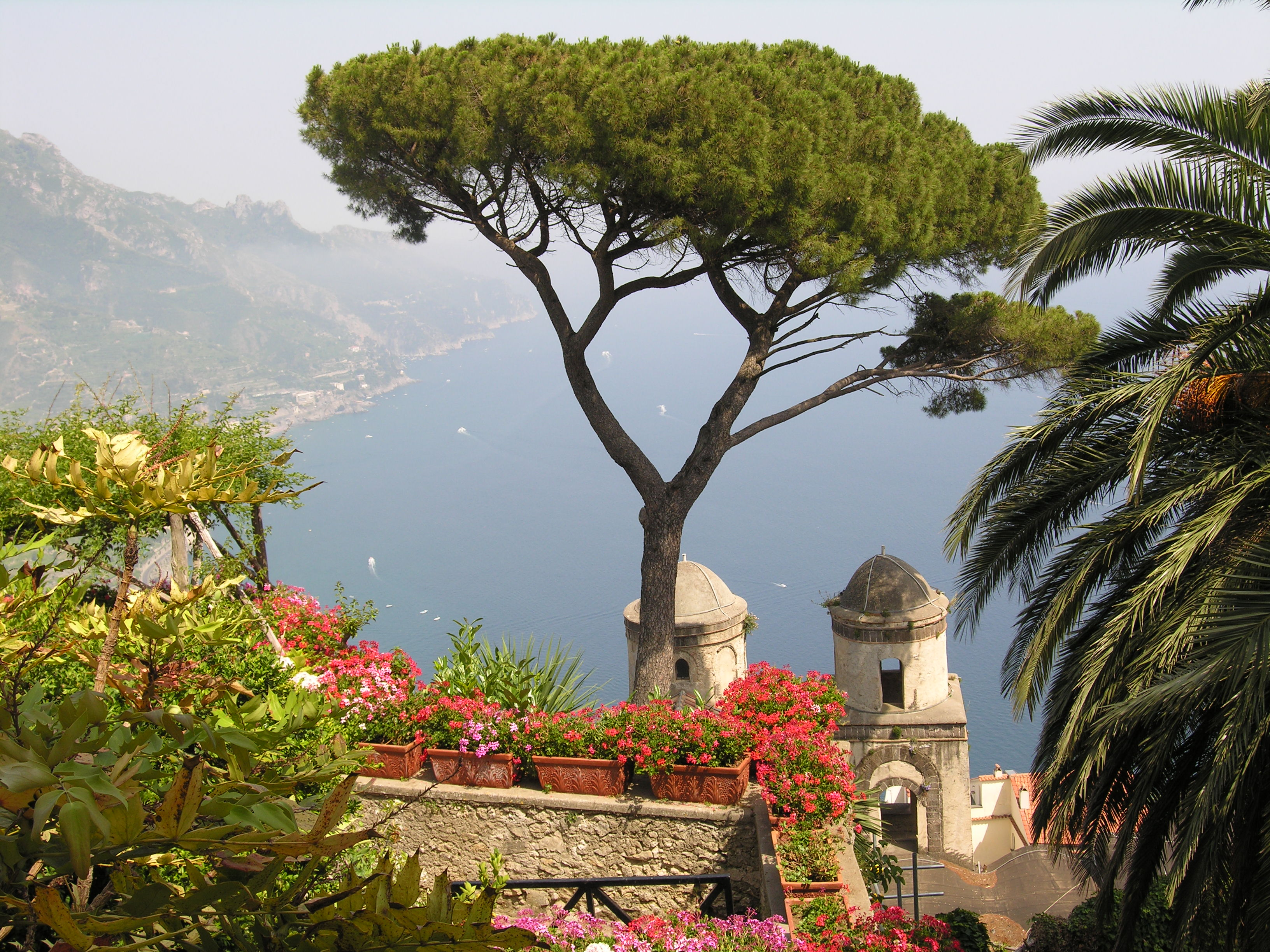 View on the sea from Villa Ruffolo in the town of Ravello, Italy